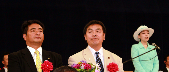 Princess Yōko speaking at the opening ceremony of the All Japan Dojo Junior Kendo Taikai at the Nippon Budokan in Chiyoda Ward, Tokyo on July 26, 2016, with Minister of Education, Culture, Sports, Science and Technology Hiroshi Hase and Senior Vice-Minister for Internal Affairs and Communications Shimpei Matsushita listening